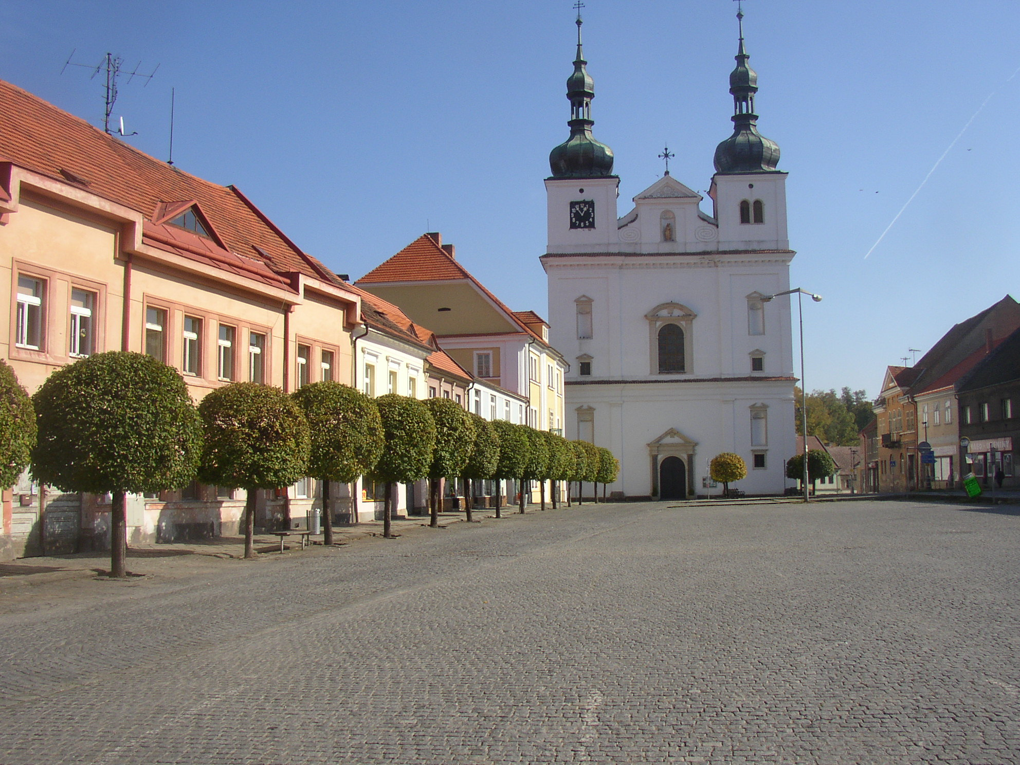 Northeastern part of town square in Březnice, Příbram District, Czech Republic. Baroque (1640s) church of SS Francis Xavier and Ignatius Loyola by Carlo Lurago and Martino Lurago.